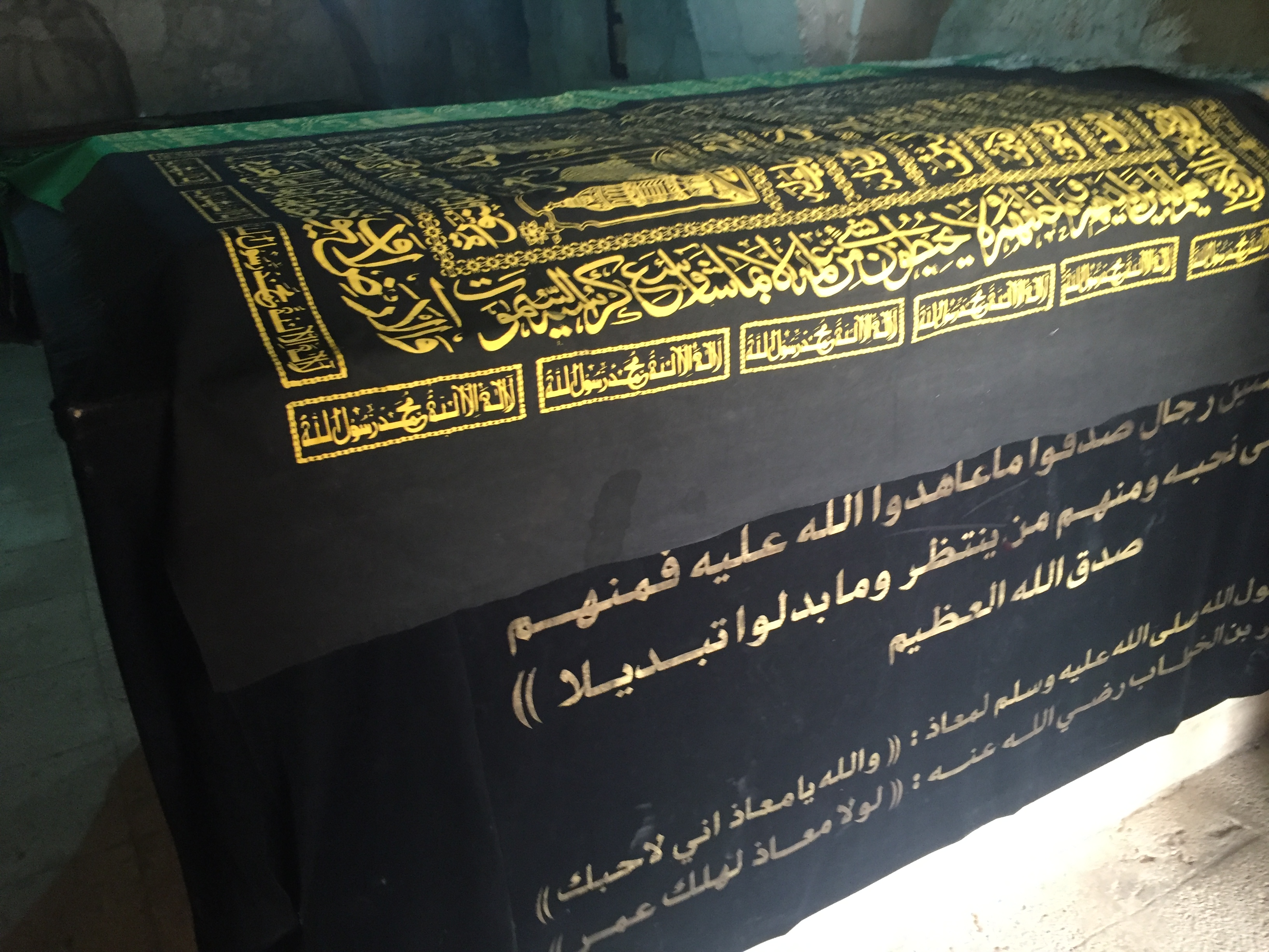 Shrine of Muadh ibn Jabal, Jordan